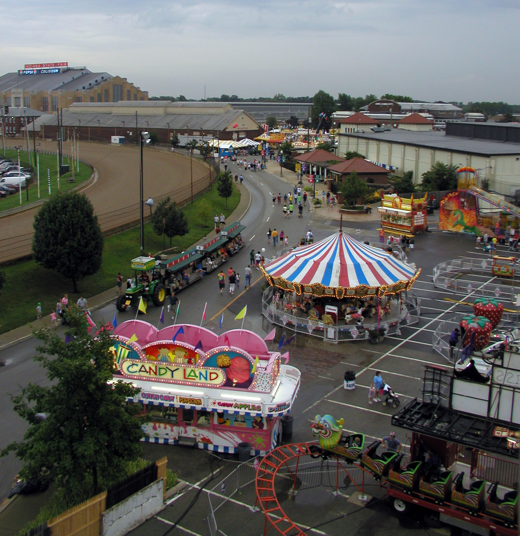 Aerial view showing a portion of the fair grounds at the Indiana State Fair. On the left is the race track. At right, a portion of the midway can be seen. Center left is a John Deere tractor pulling a shuttle train for fair attendees. In the distance at upper left the Pepsi Coliseum can be seen. Photo taken August, 2006 by User:Durin